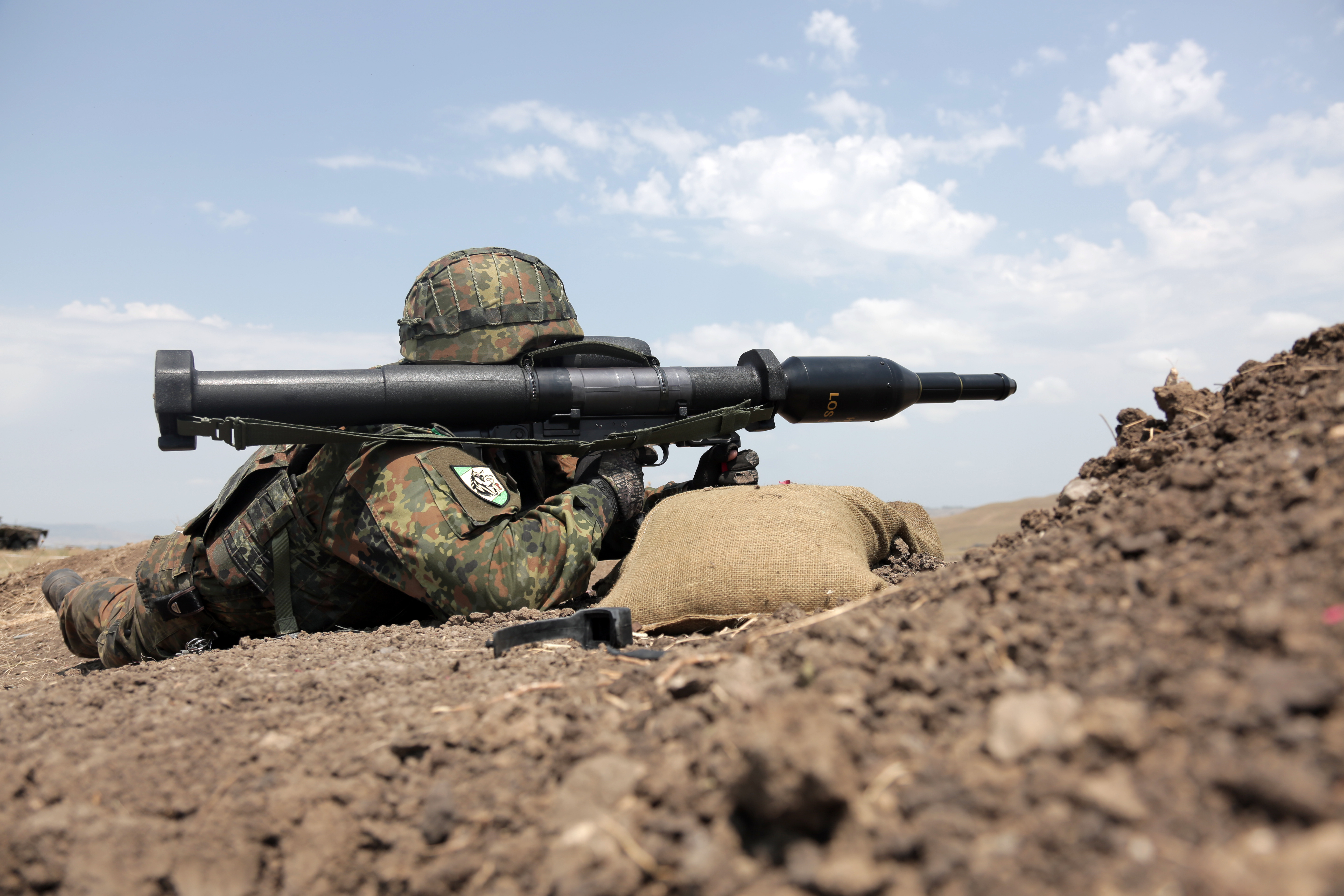 German Army Cpl. Vadim Ganshi, assigned to 2nd Company, Infantry Battalion 291, French German Brigade, awaits orders to fire a Panzerfaust 3. Vaziani, Republic of Georgia, Aug. 5, 2017. Noble Partner 17 supports Georgia in conducting home station training of its second NATO Response Force (NRF) contribution. Noble Partner will further enhance NFR and Operational Capabilities Concept interoperability and readiness in order to support regional stability. (U.S. Army photo by Spc. Hayley Gardner).